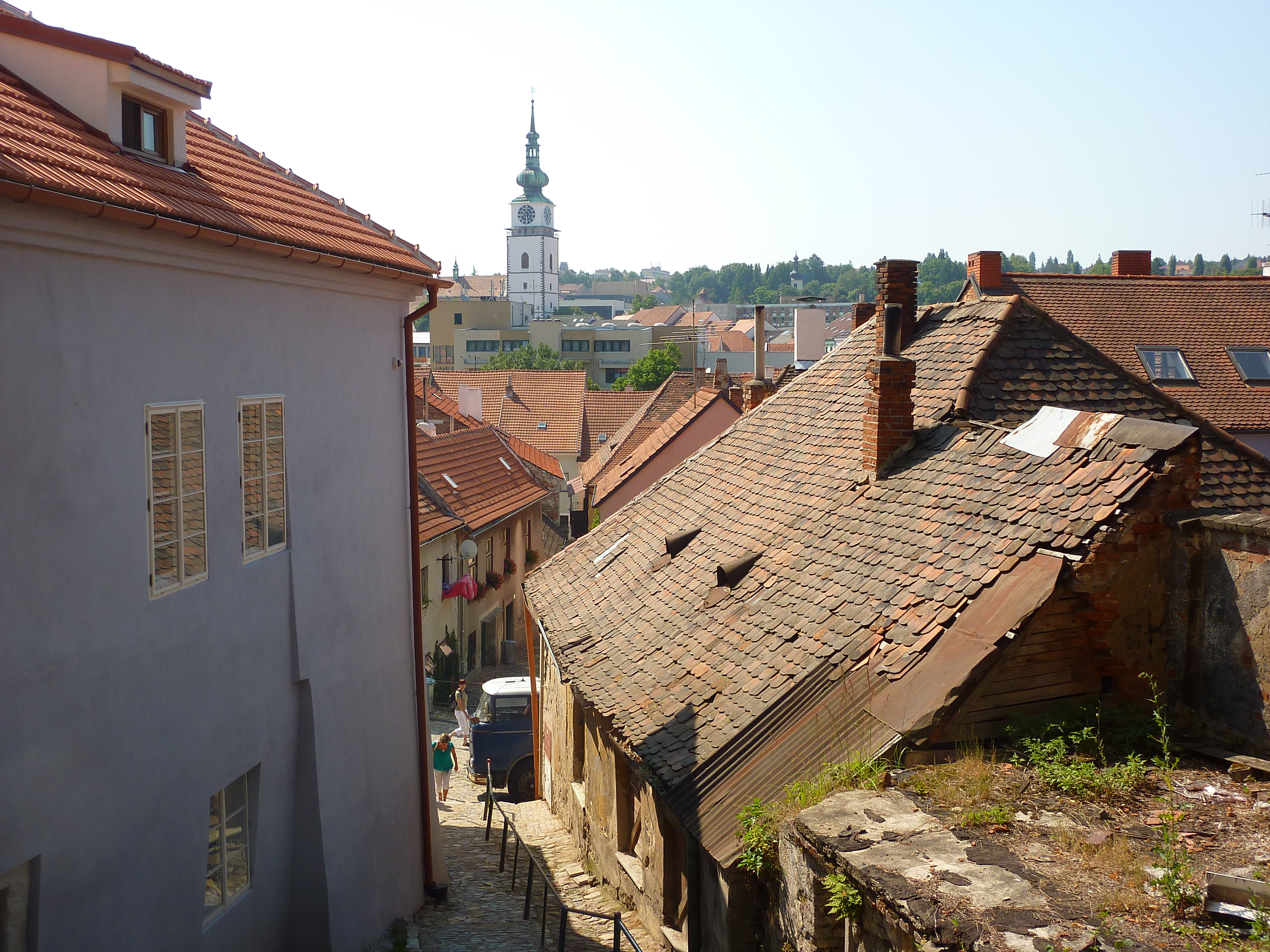 Jewish Quarter, Třebíč, Czech Republic There are around 120 houses in Třebíč's Jewish Quarter, making it one of the largest preserved ghettos in Europe. The Jewish Quarter and Cemetery are the only independently listed relics from on the UNESCO World Heritage List outside of Israel.